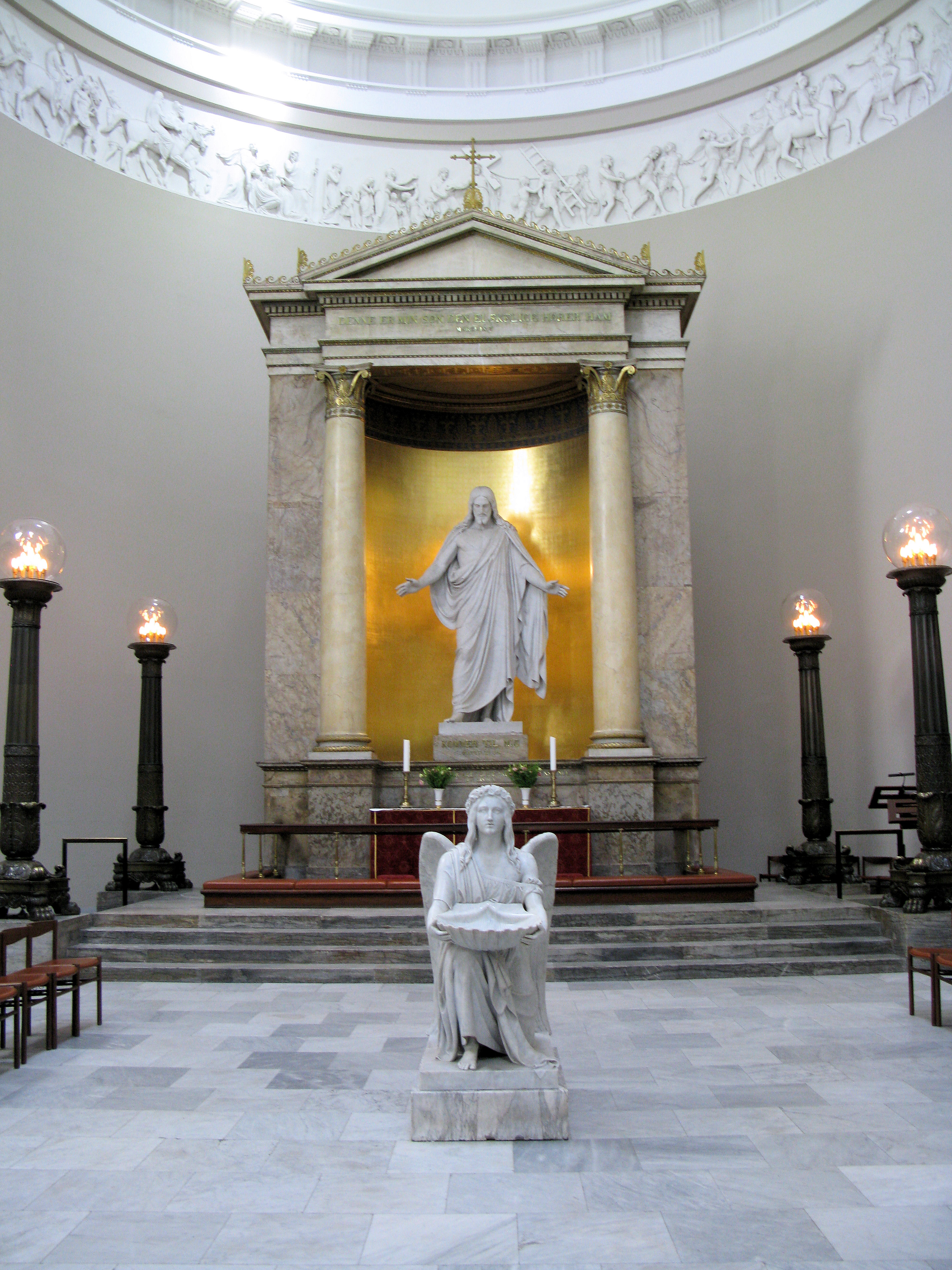 baptismal font in the Church of Our Lady, Copenhagen